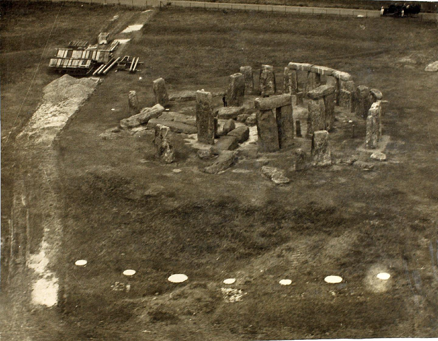 Stonehenge - Salisbury Plain